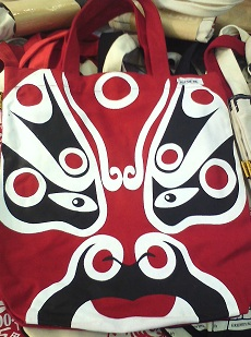 Beijing Opera Face